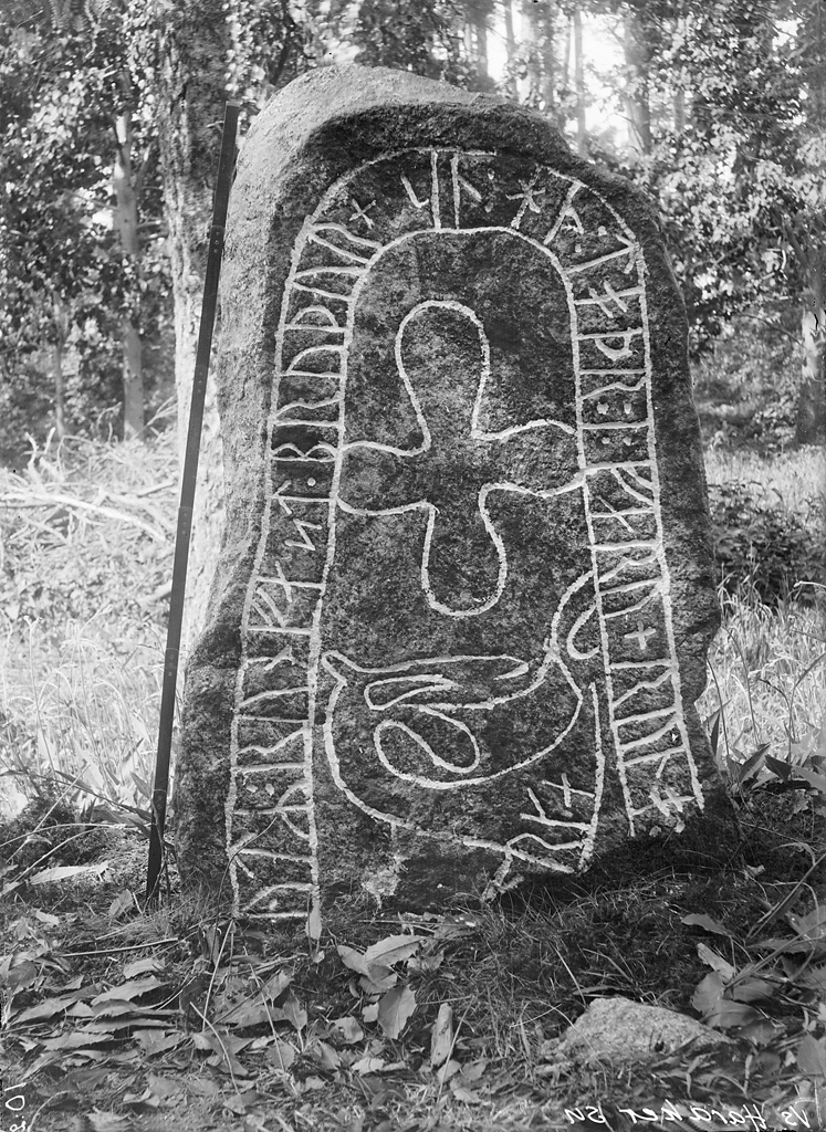 Runestone Vs 22 in Ulvsta. The inscription says: "... in memory of Runfast, his brother. He died on a voyage... (the best of) young men (?)".